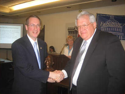 Speaker Dennis Hastert presents Congressman Bob Goodlatte with the Ronald Reagan Award